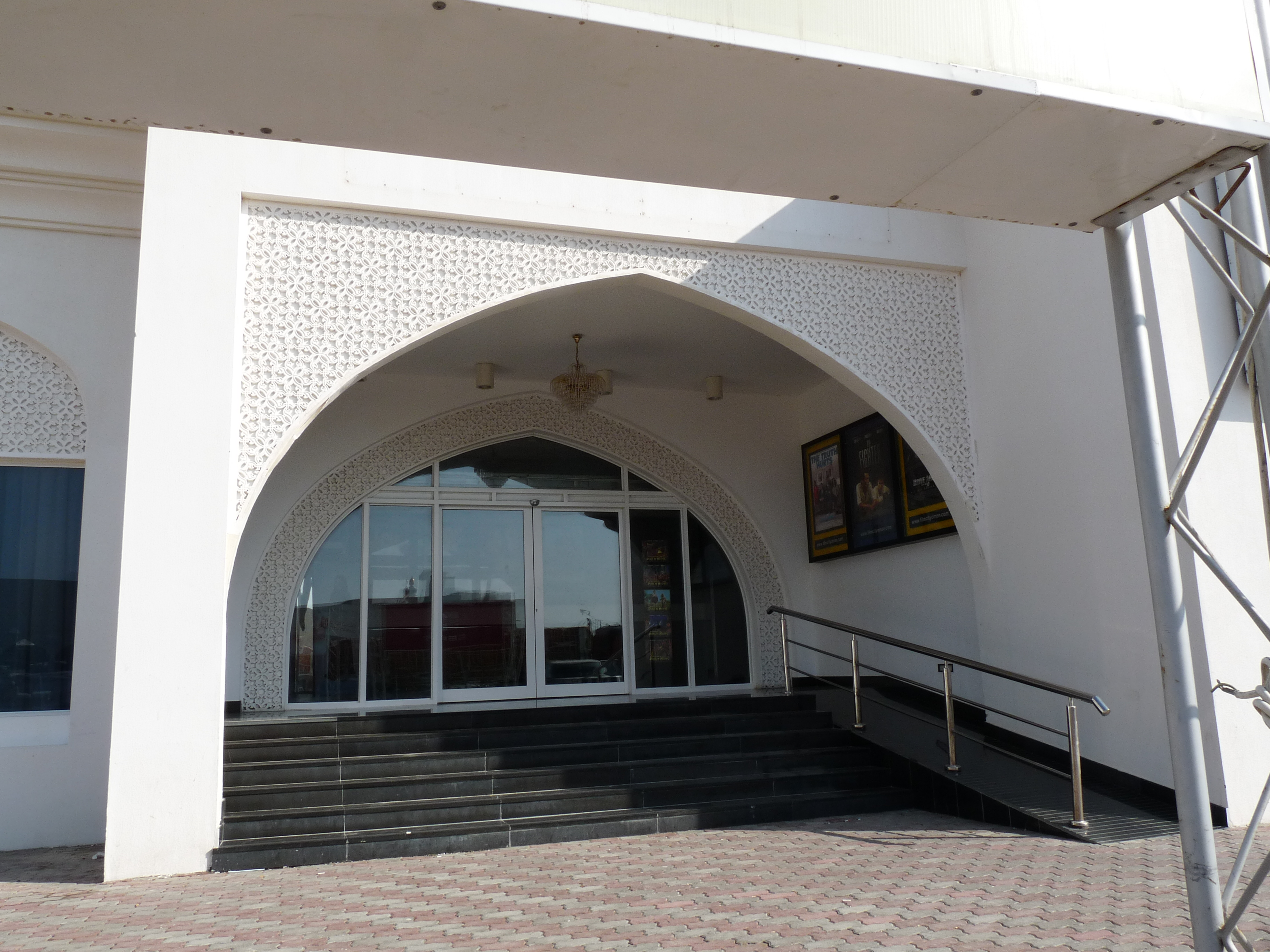 Cinema in Sur (Oman)